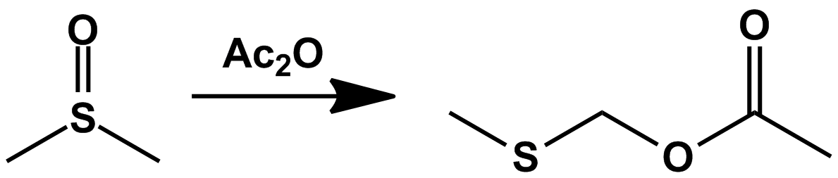 Pummerer rearrangement of DMSO